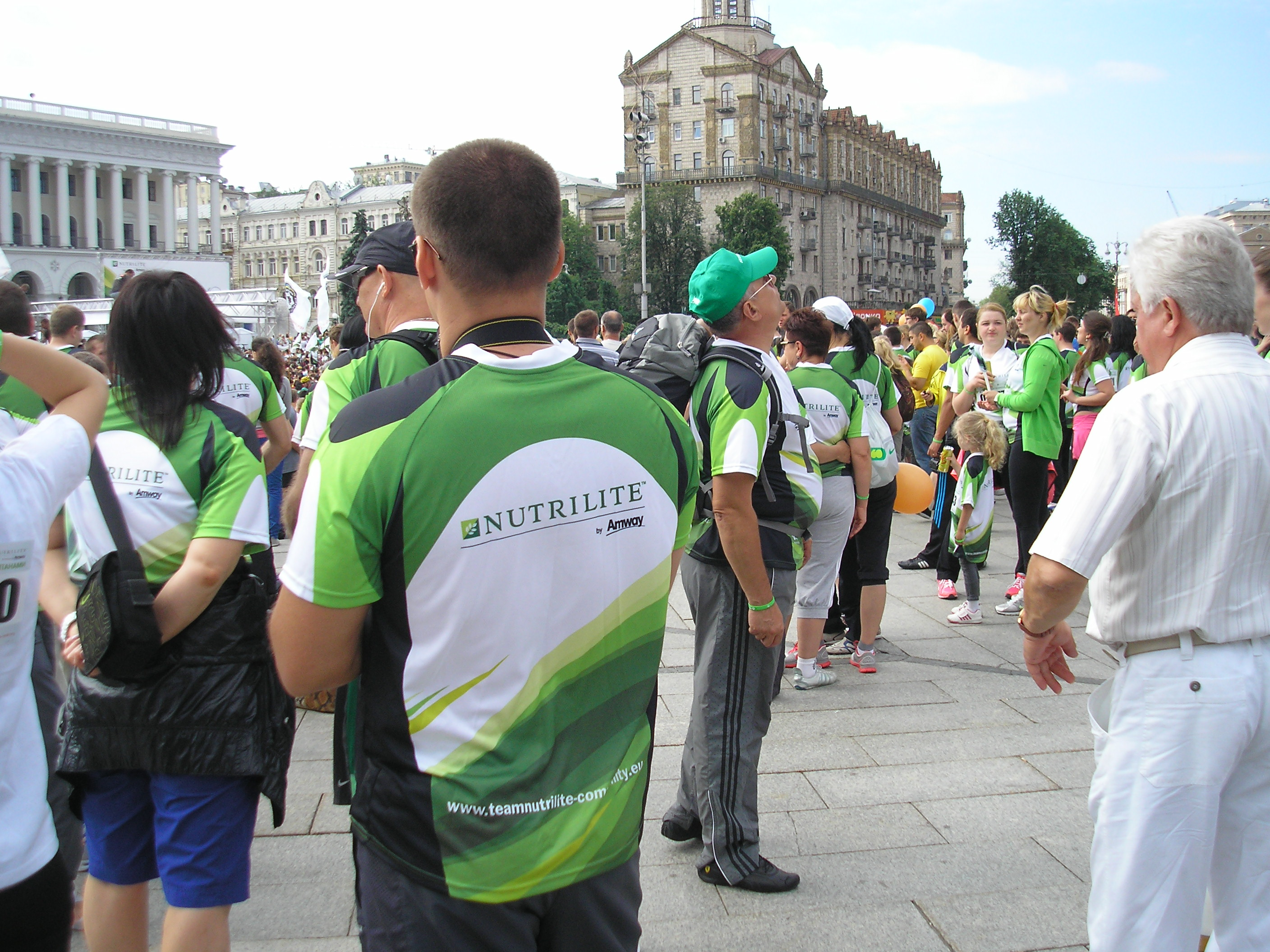 Kyiv Chestnut Run 2013